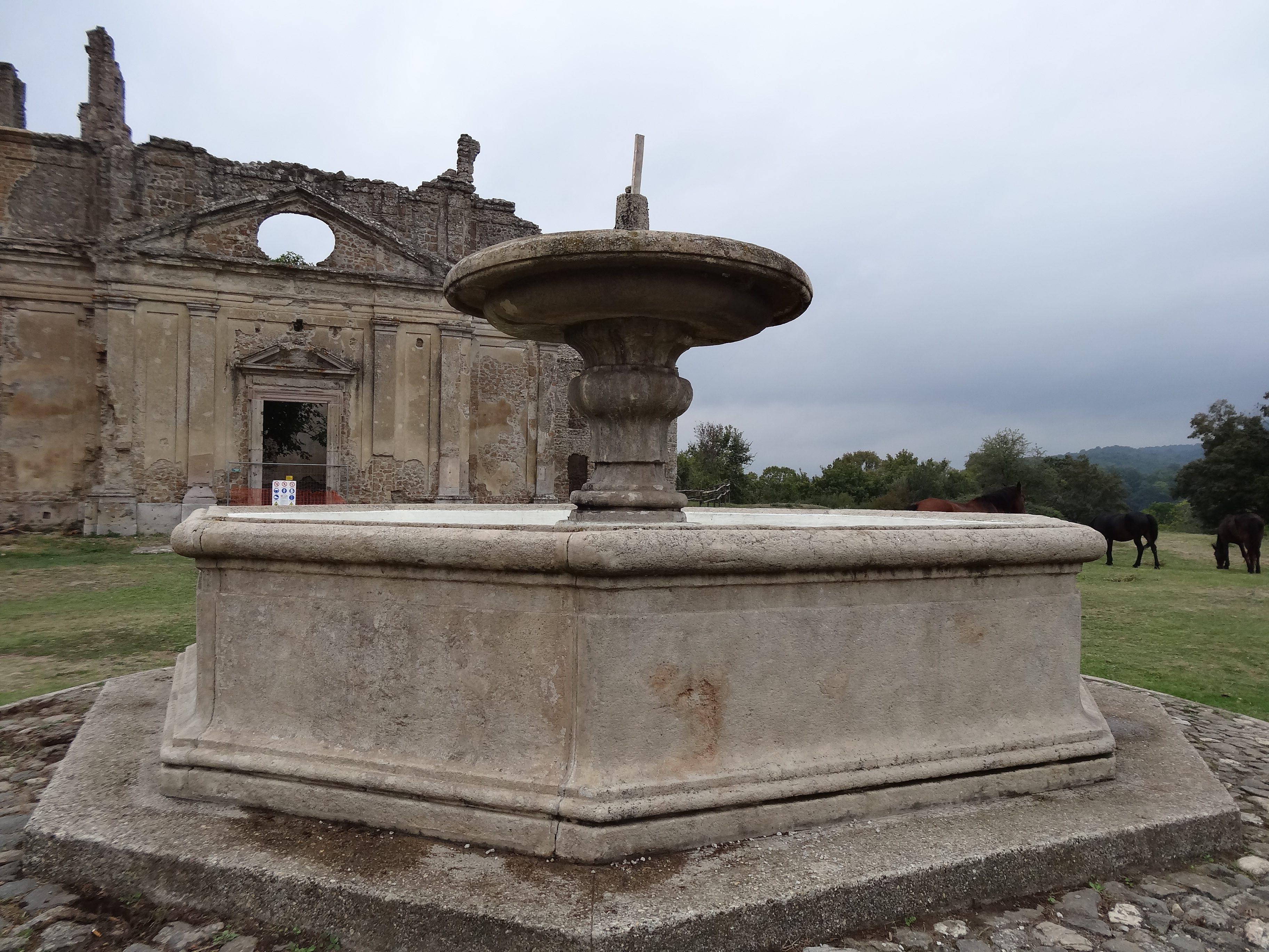 Fontana Monterano